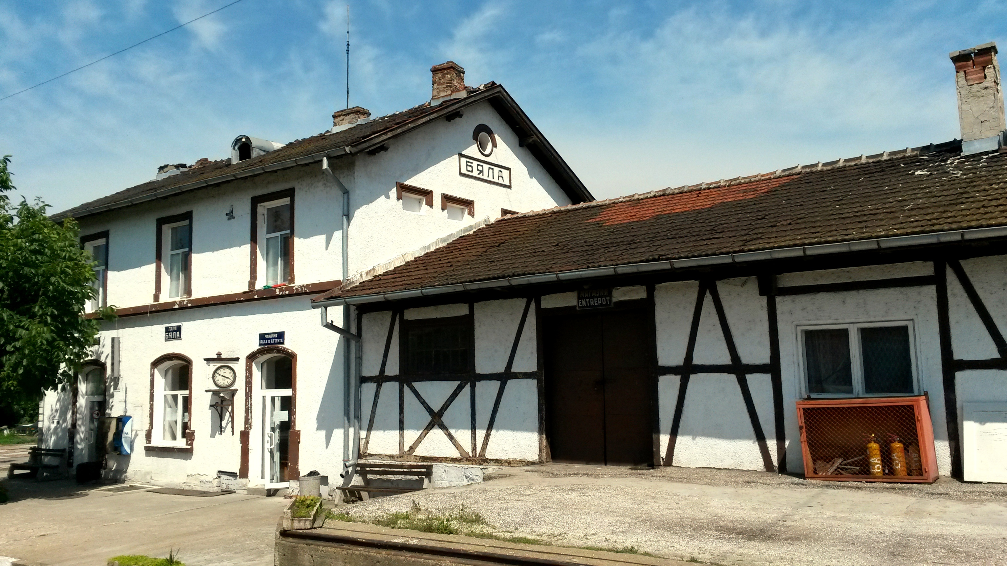 2014-06-24 between Veliko Tarnovo and Rousse.